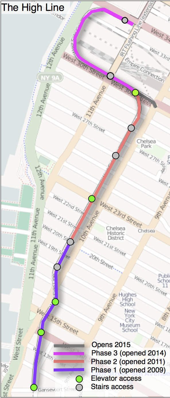 Map of the High Line in Manhattan, New York City This map may be incomplete, and may contain errors. Don't rely solely on it for navigation.